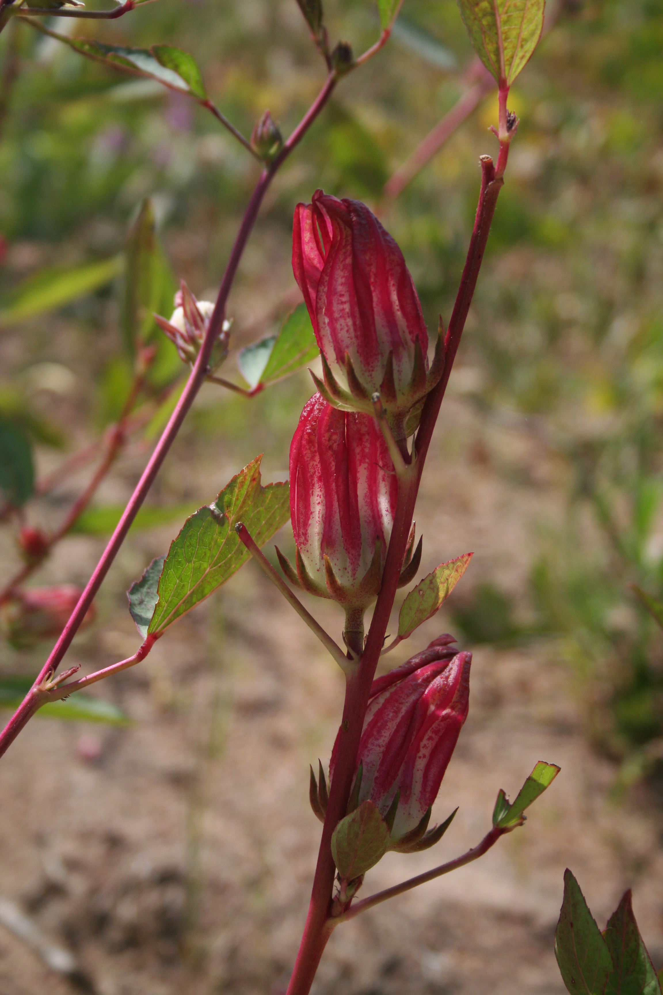 Hibiscus sabdariffa in a field in Tambaga, Prov. Tapoa, Burkina Faso